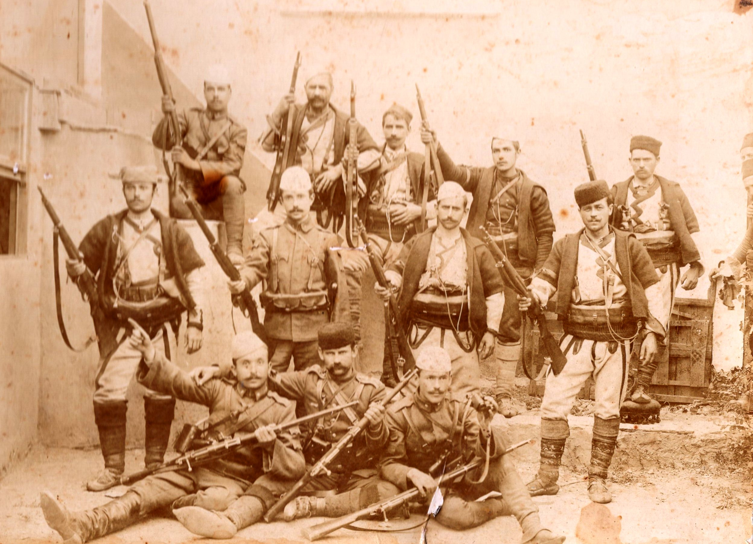 Skopje district detachment commander Adzhalarski This media file is produced by Wikipedian in Residence in Category:Wikipedian in Residence at DARM in 2016.